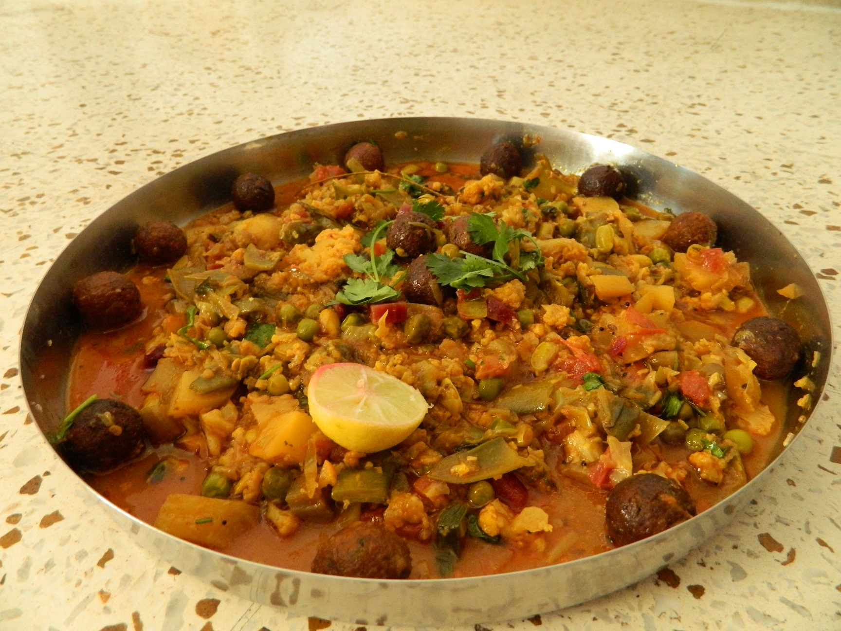 A Gujarati Recepie